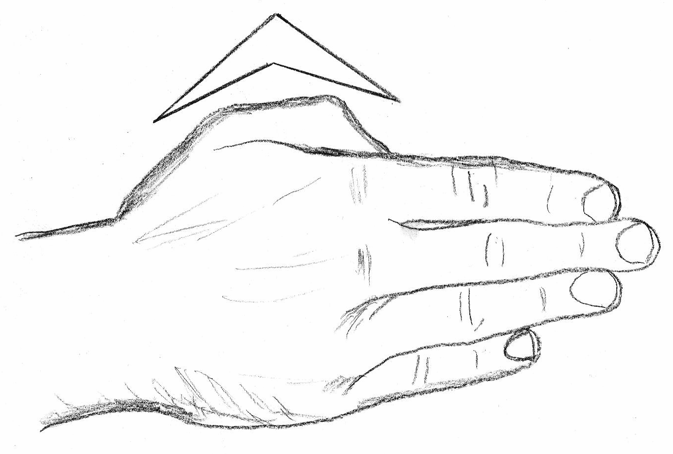 Karate: Haito